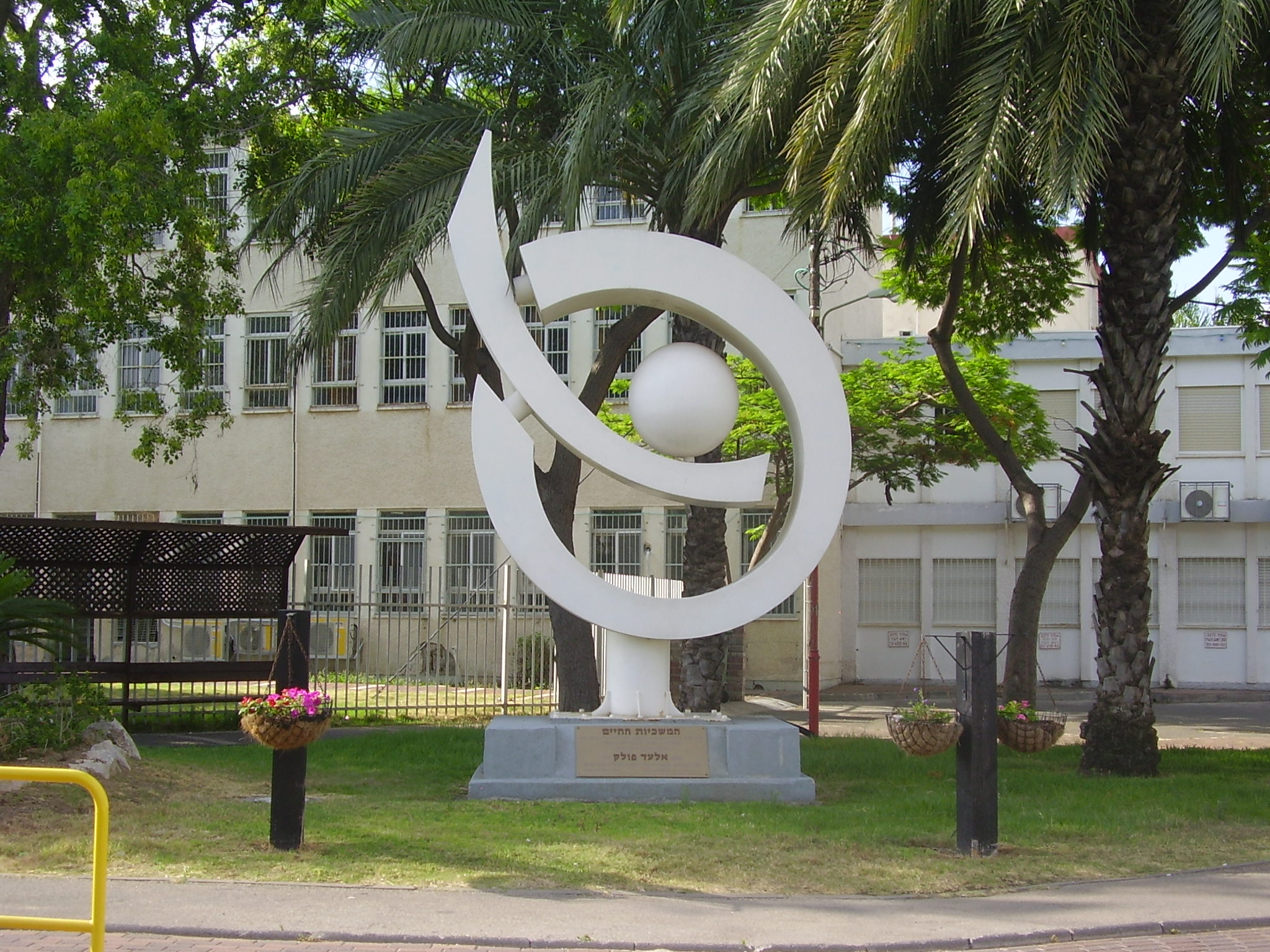 The statue \"continuity of life\" in Kiryat Motzkin